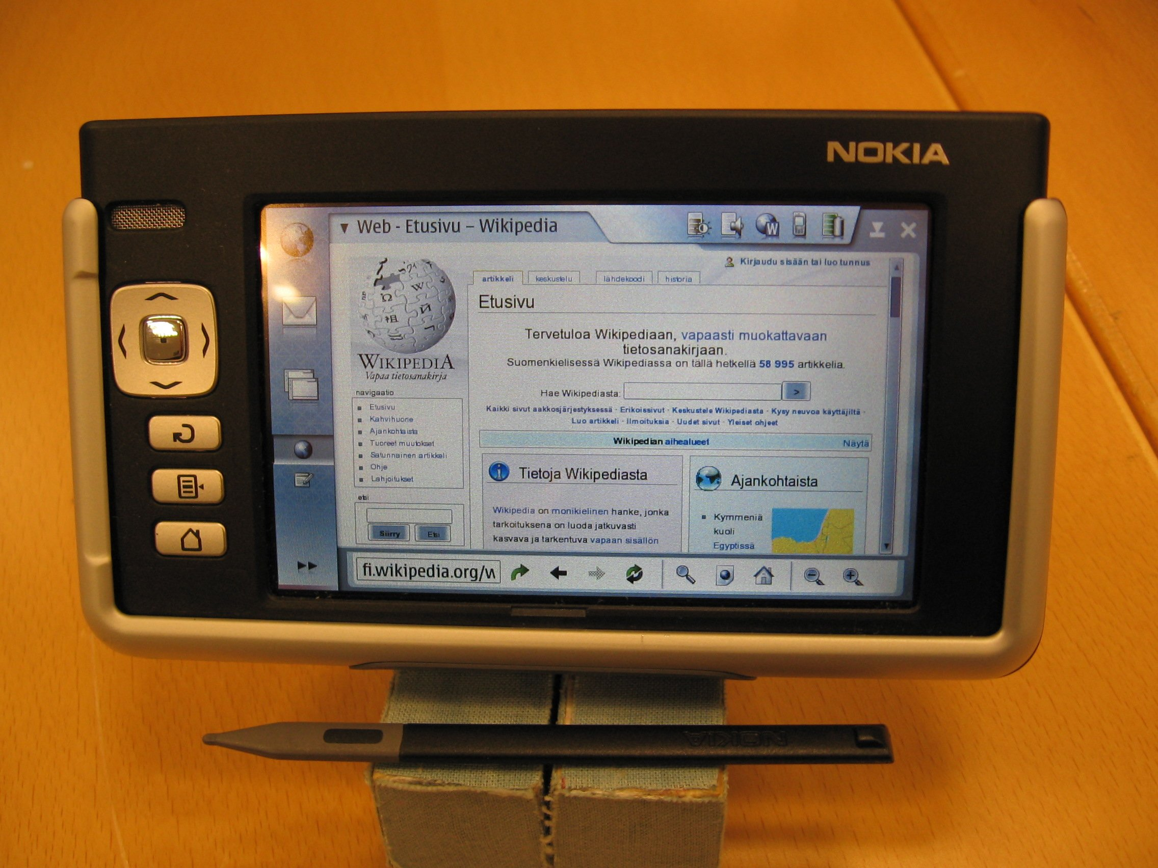 Picture of Nokia 770 on Finnish Wikipedia